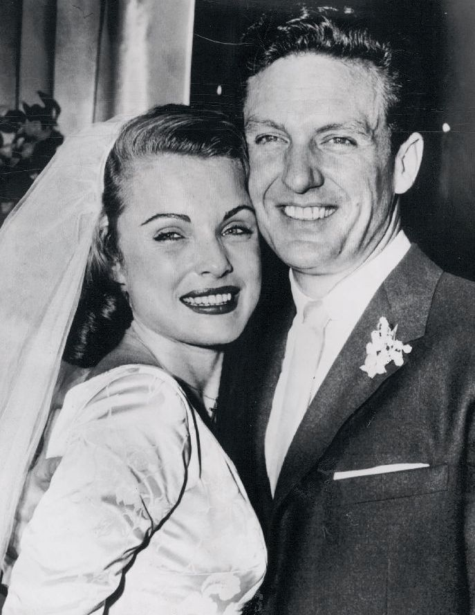 Rosemarie Bowe and Robert Stack wedding photo